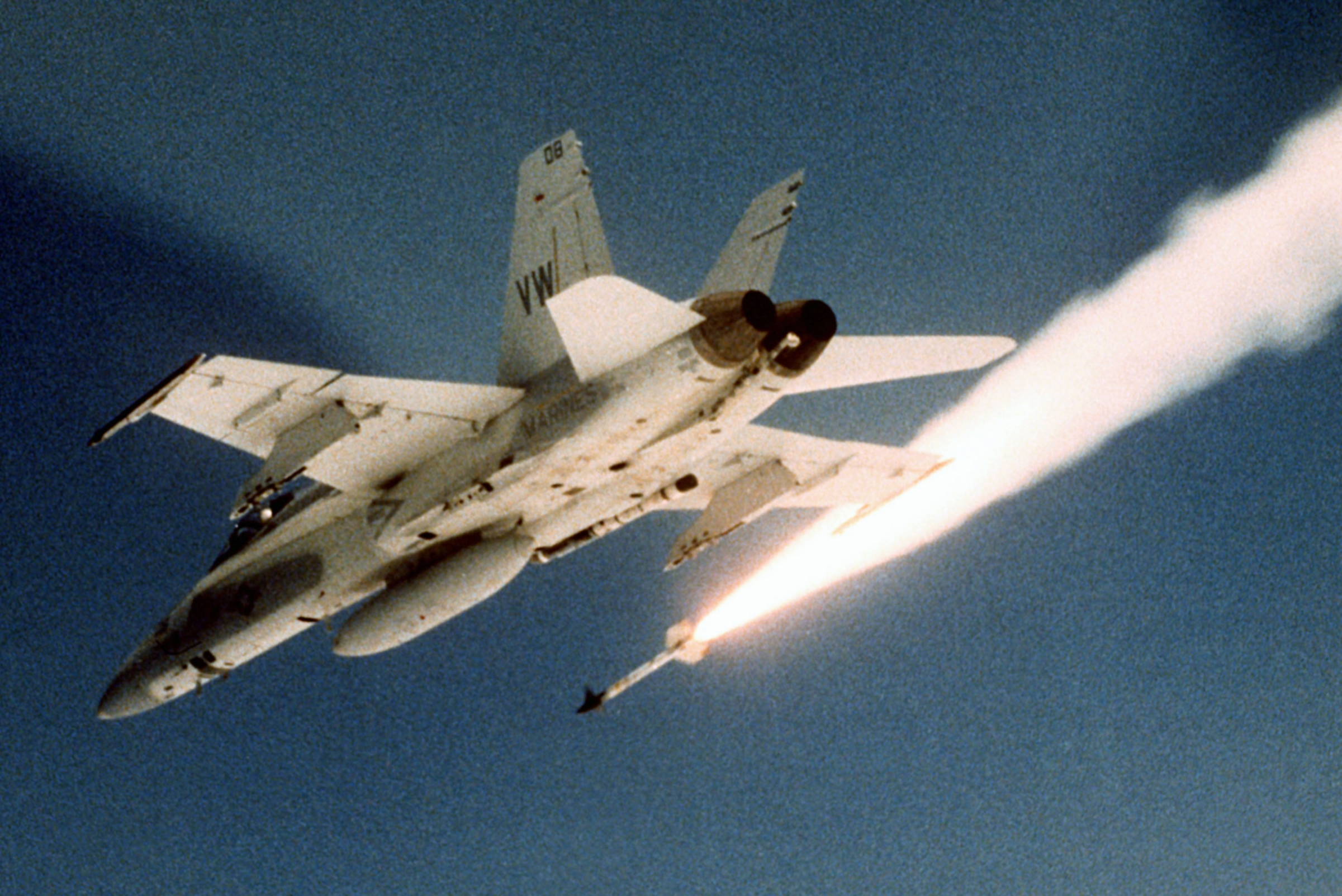 A U.S. Marine Corps McDonnell Douglas F/A-18A Hornet from Marine fighter attack squadron VMFA-314 Black Knights launching an AIM-9L Sidewinder air-to-air missile on 1 April 1984.